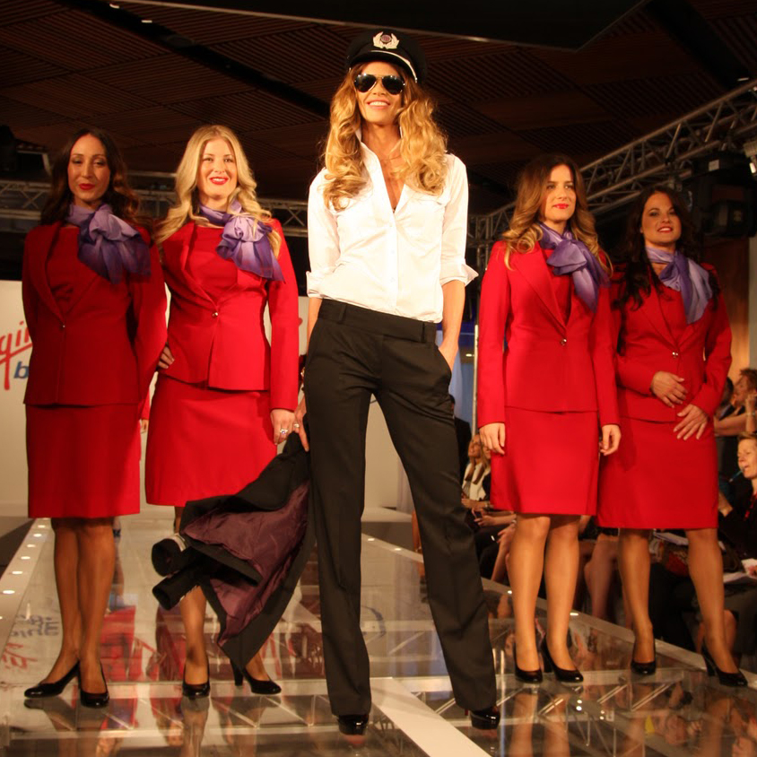 Elle Macpherson modeling for Virgin Australia in Sydney in October 2011.